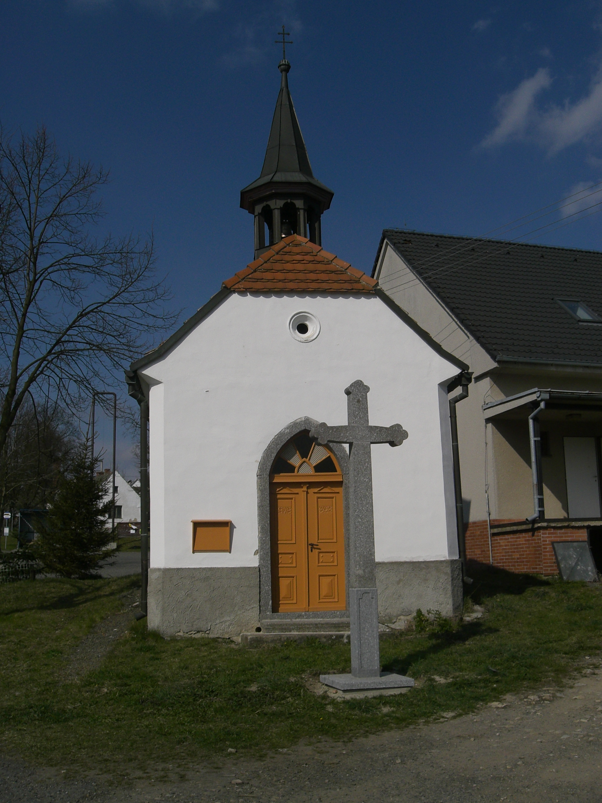 Přeborov village in the Písek district, Czech Republic. Chapel.